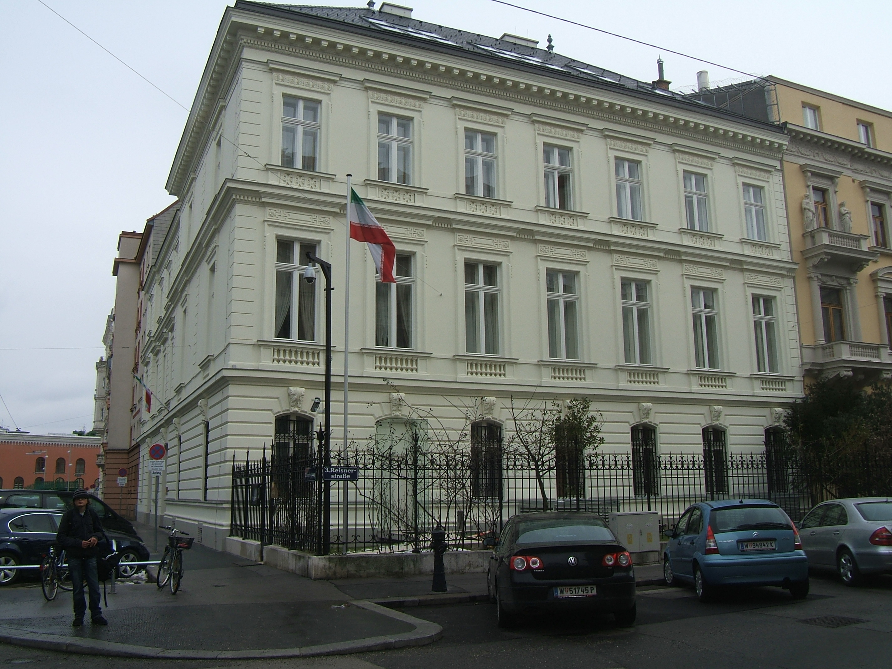 Palais Sigray St. Marsan in Vienna Reisnerstraße 49/Jaurèsgasse, Embassy of Iran